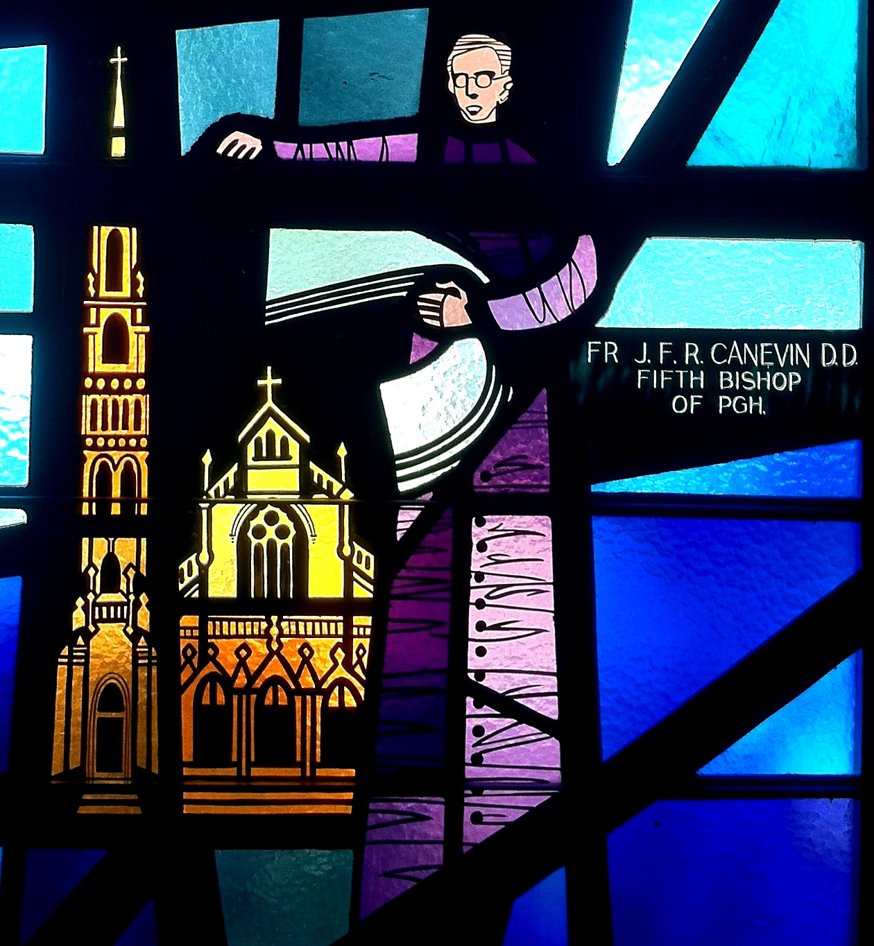 This is a stained glass depiction of Pittsburgh Bishop J. F. Regis Canevin. The window is located in Saint Patrick's Roman Catholic Church in Canonsburg, Pennsylvania.